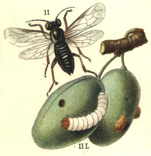 kind of sawfly, living on plum trees